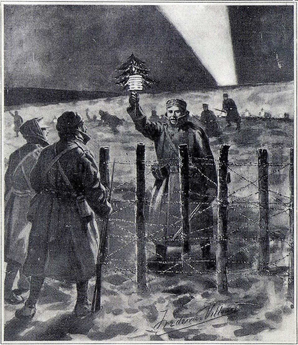 A depiction of the 1914 Christmas truce published on the front page of the Illustrated London News on 9 January 1915. The original caption was "The light of Peace in the trenches on Christmas Eve: A German soldier opens the spontaneous truce by approaching the British lines with a small Christmas tree."